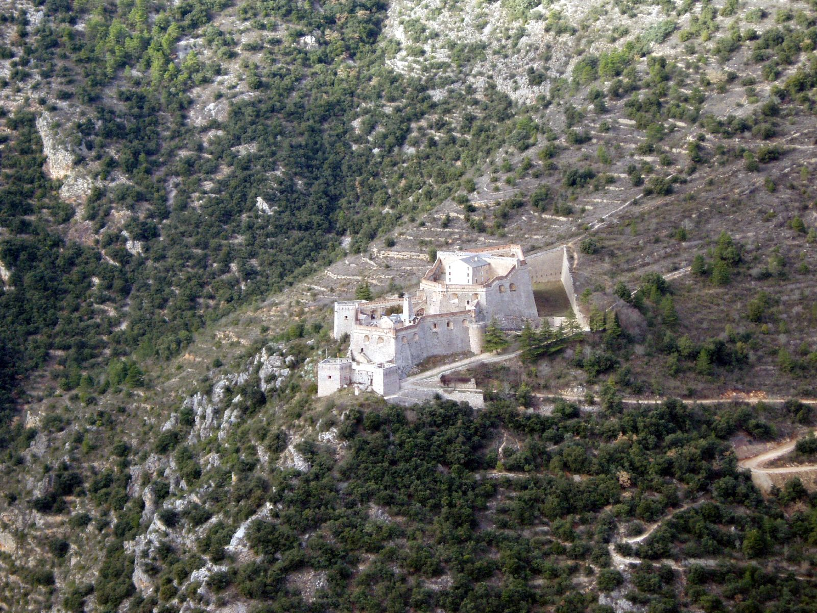 fort liberia from above villefranche